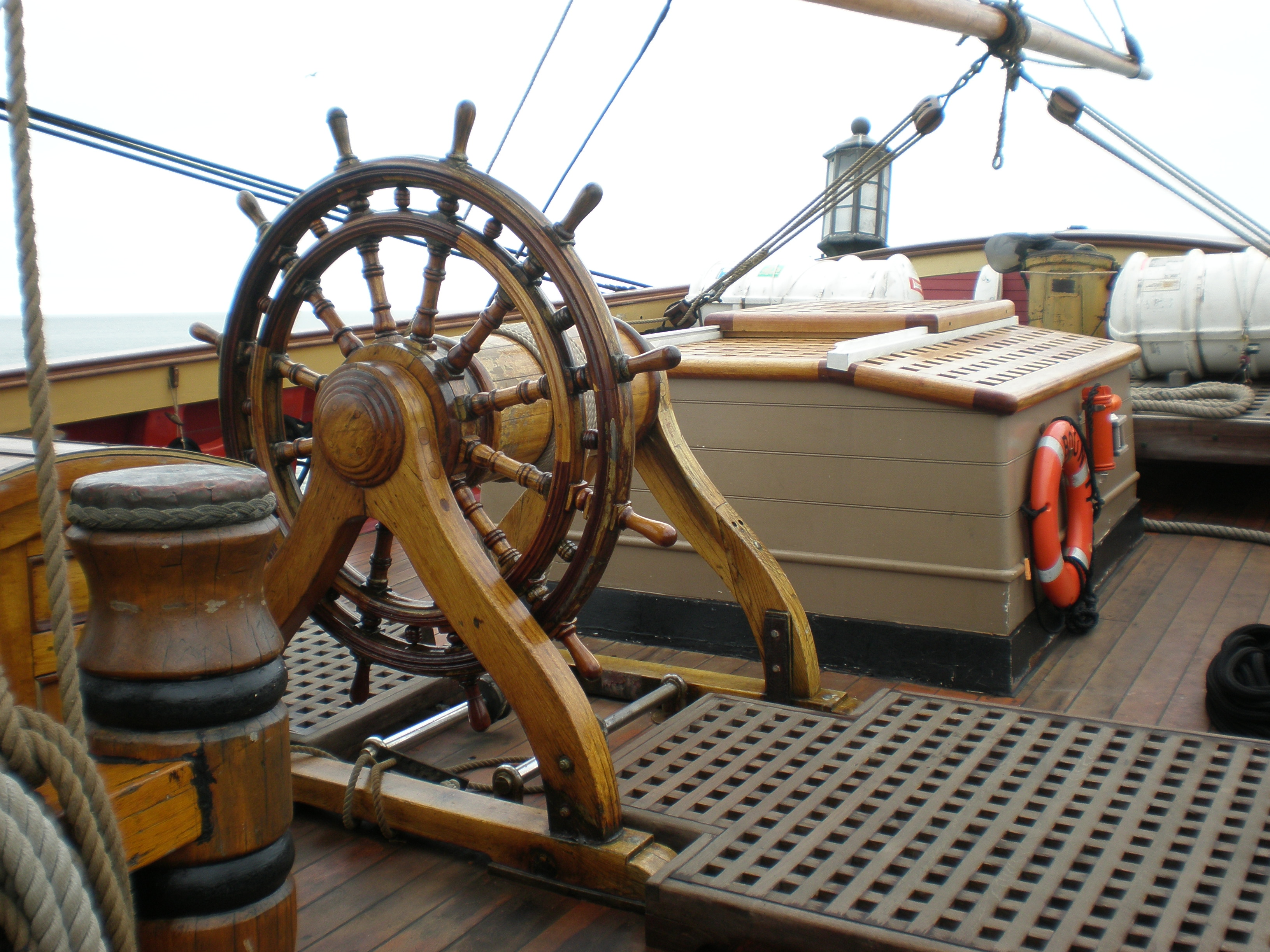 The steering wheel of the Bounty II, seen while the ship was docked during the Festival of Sail San Francisco 2008.